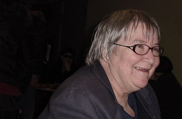 Photo of Lynne Stewart by Robert B. Livingston Friday February 23 Women's Bldg., 3543 18th St. San Francisco